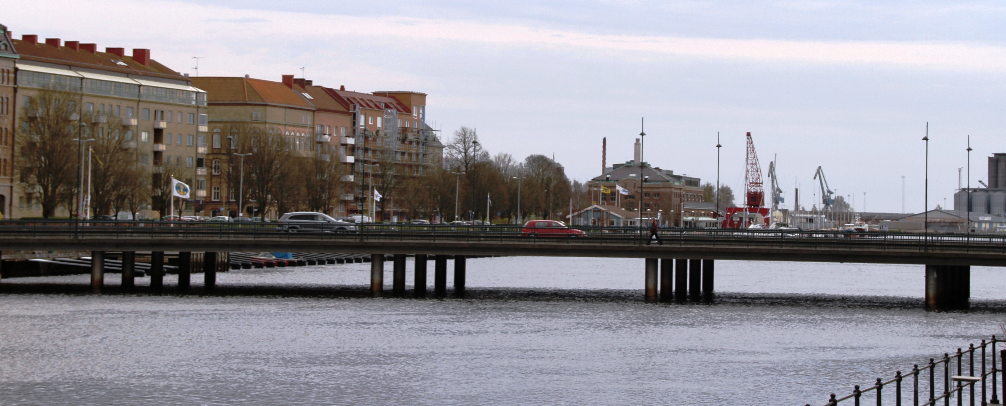 Image from downtown Halmstad, western Sweden.